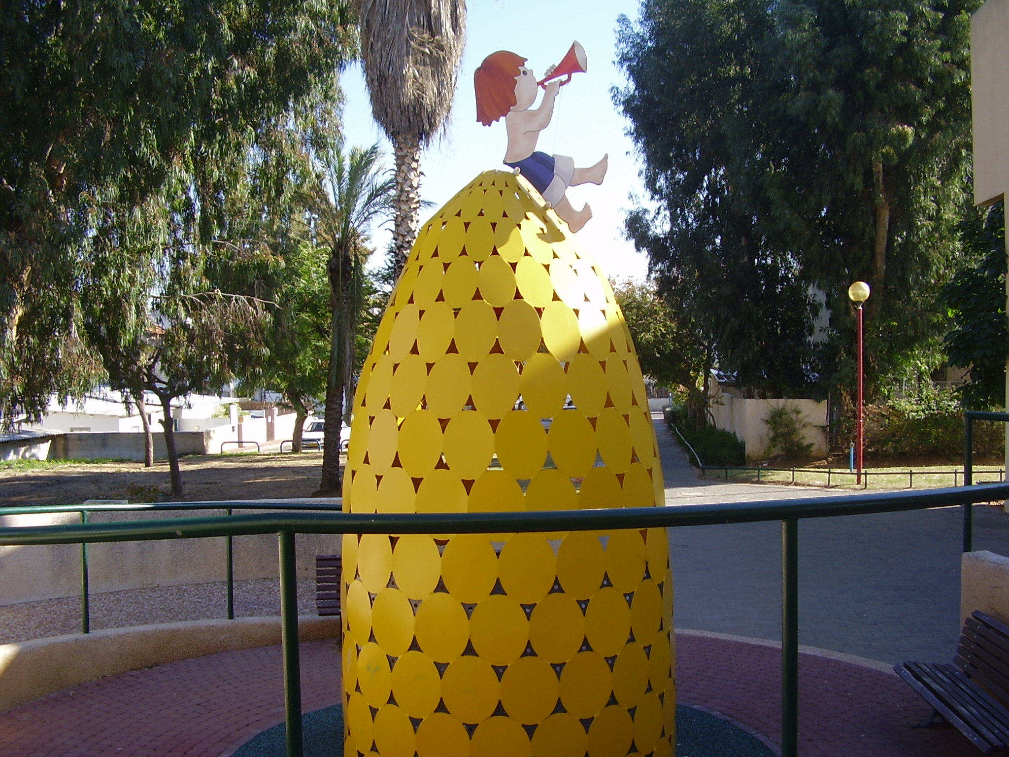 "Hot Corn" garden in Holon